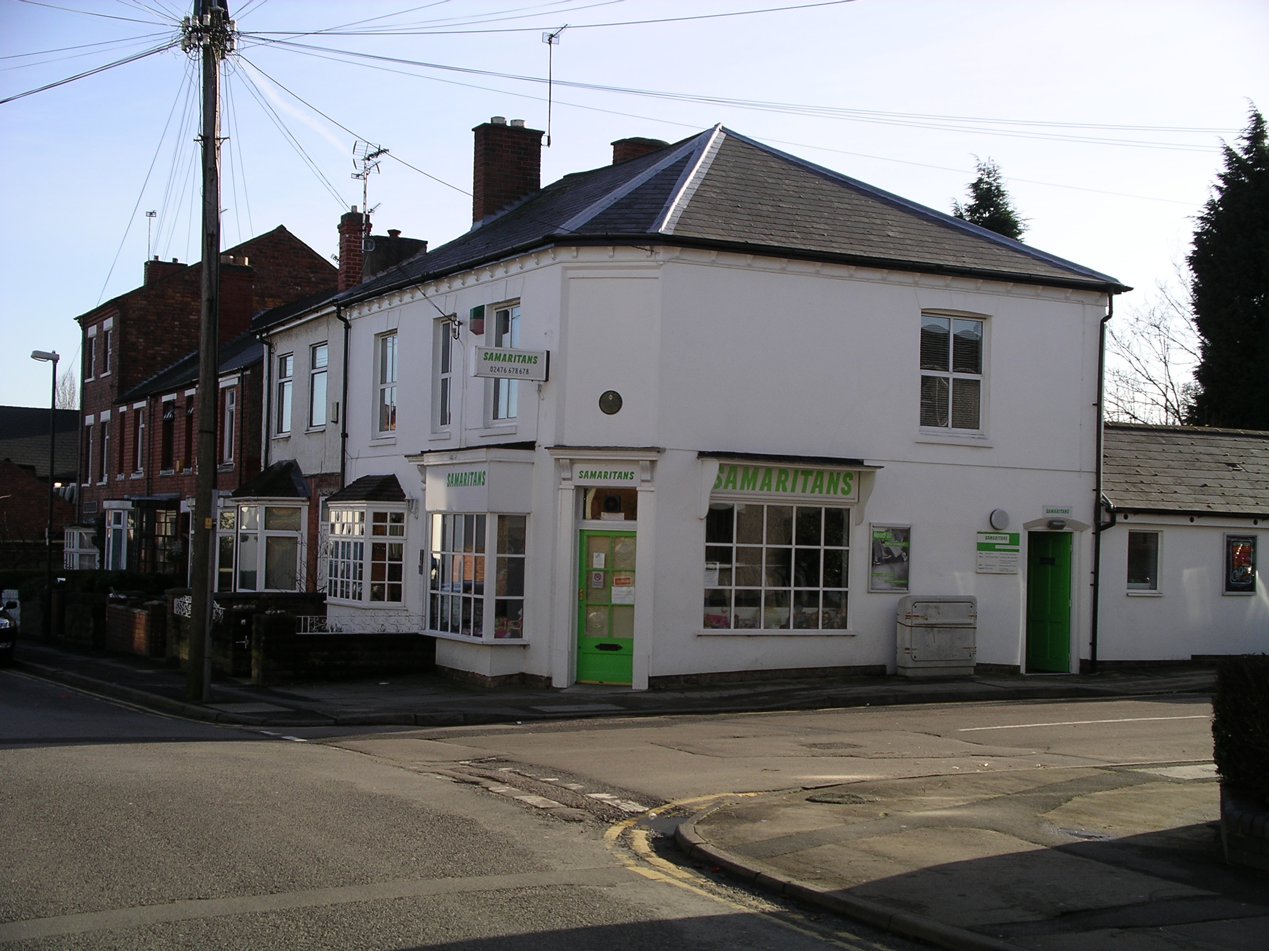 The Samaritans branch in Moore Street, Coventry, England. It is a charity with branches all over Britain and Ireland.